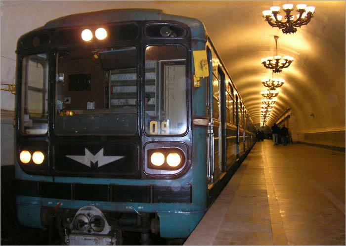 Subway train of type 81-717 in Moscow.